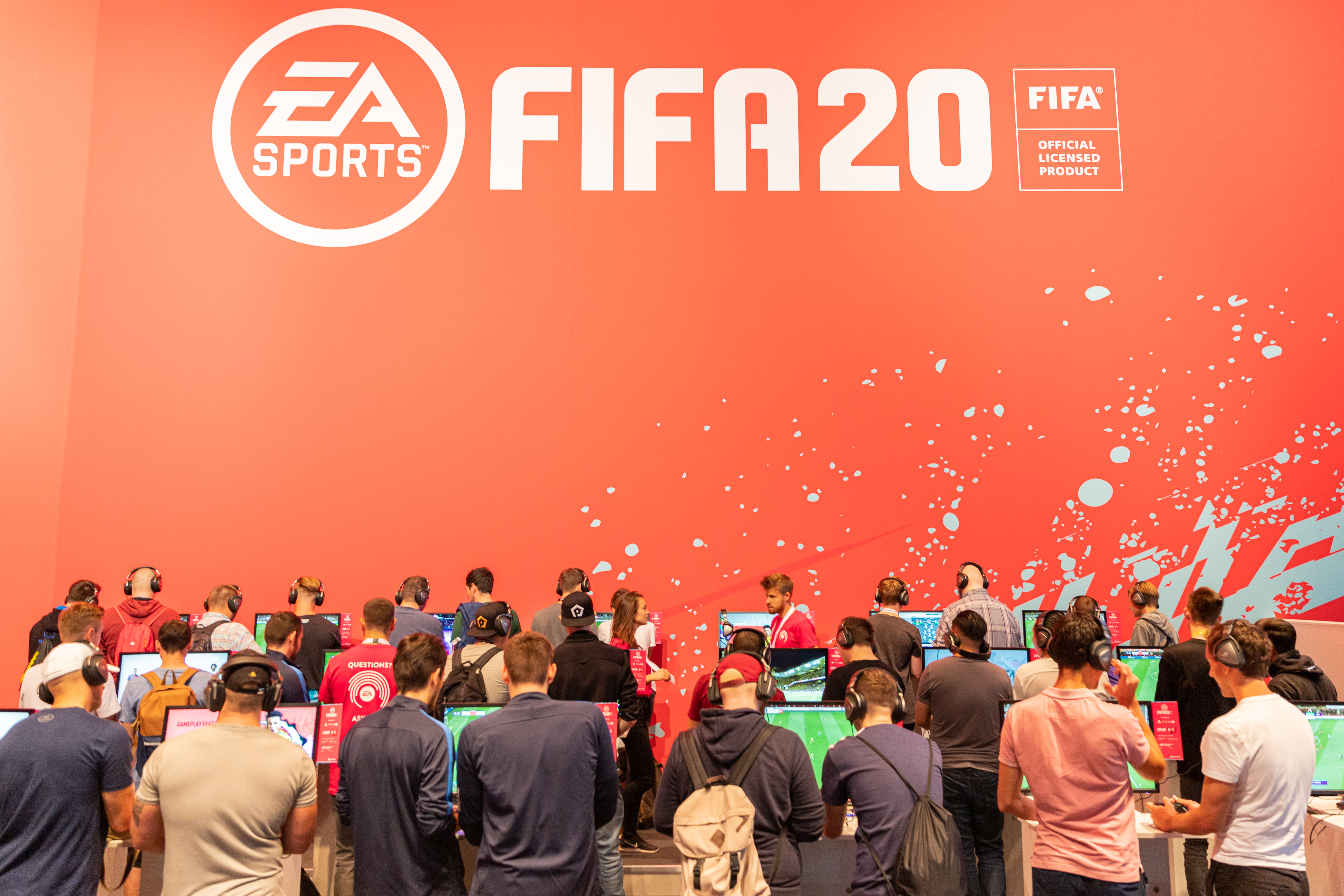 EA Sports FIFA 20 gaming Gamescom 2019